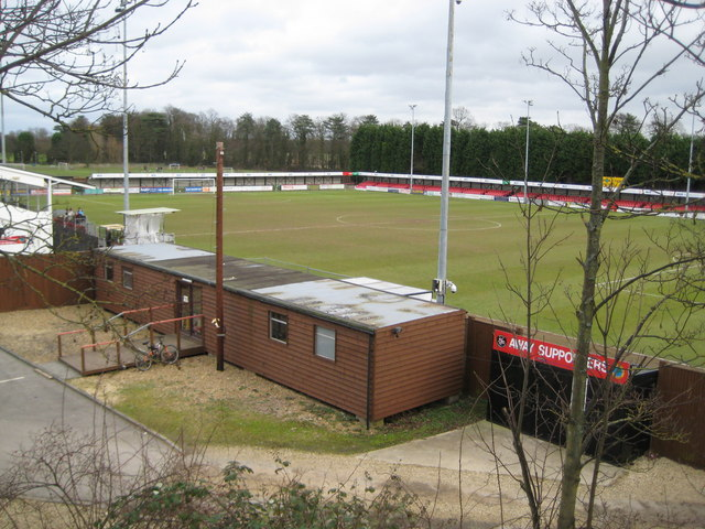 Impington: Histon FC Glass World Stadium, near to Impington, Cambridgeshire, Great Britain. The 3,800 capacity Glass World Stadium is the home of Histon FC, currently (2010-2011 season) playing in the Blue Square Bet Premier League. The club was formed in 1904 as Histon Institute, hence their nickname of The Stutes. The club's greatest ever result was a 1-0 defeat of Leeds United in the 2nd Round of the FA Cup on 30 November 2008, being the first occasion that Leeds had lost to a non-league side in that competition.